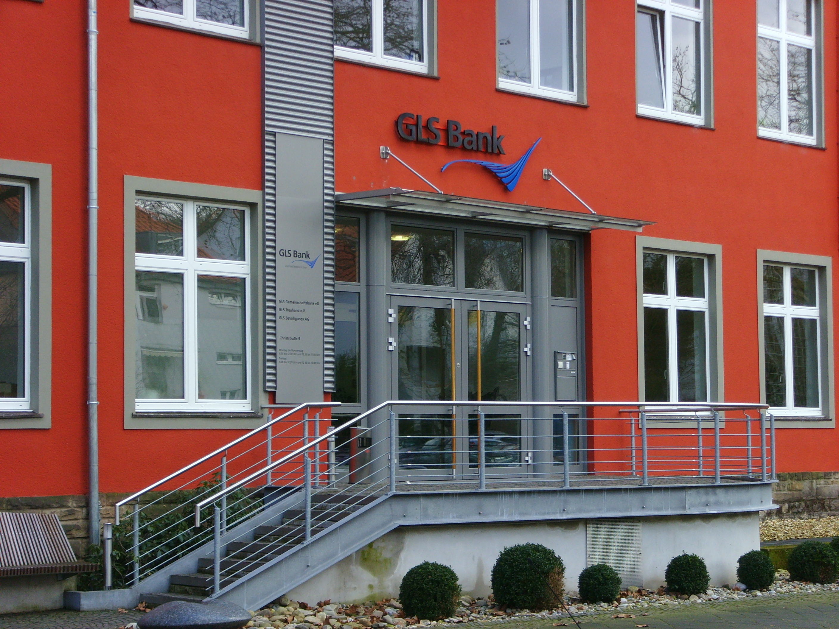 Eingang des Hauptsitz der GLS Gemeinschaftsbank eG mit Logo. Die GLS Bank war Deutschlands erste Antrophosophische Bank. : Entrance with logo of the head office of the german GLS Bank in Bochum, Germany. It was the first anthroposophical bank in Germany. Source: own work Date: March 2008, Bochum, Germany Author: Maschinenjunge Licence: GFDL, cc-by 3.0